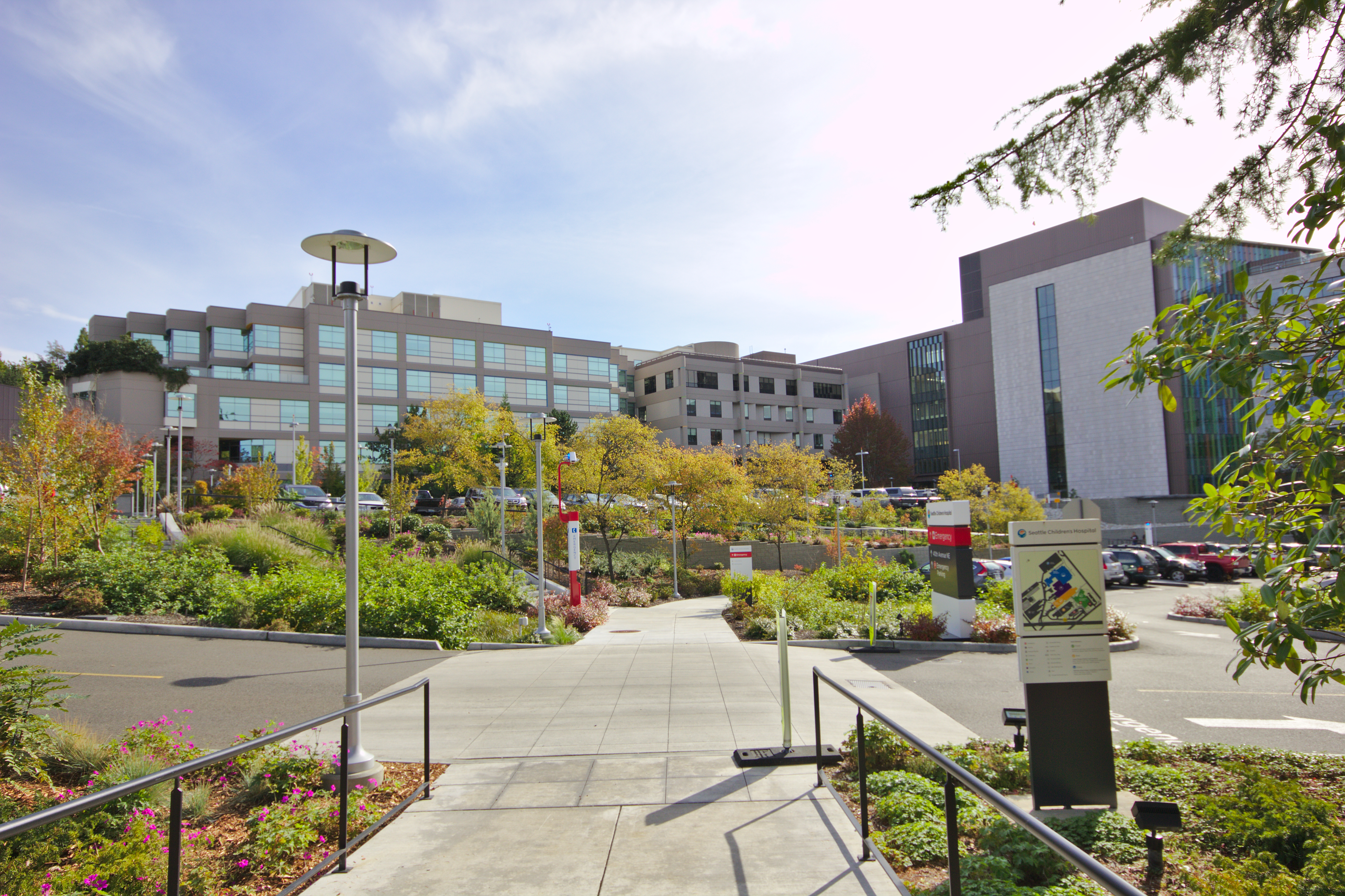 Seattle Children's, on a nice day in October